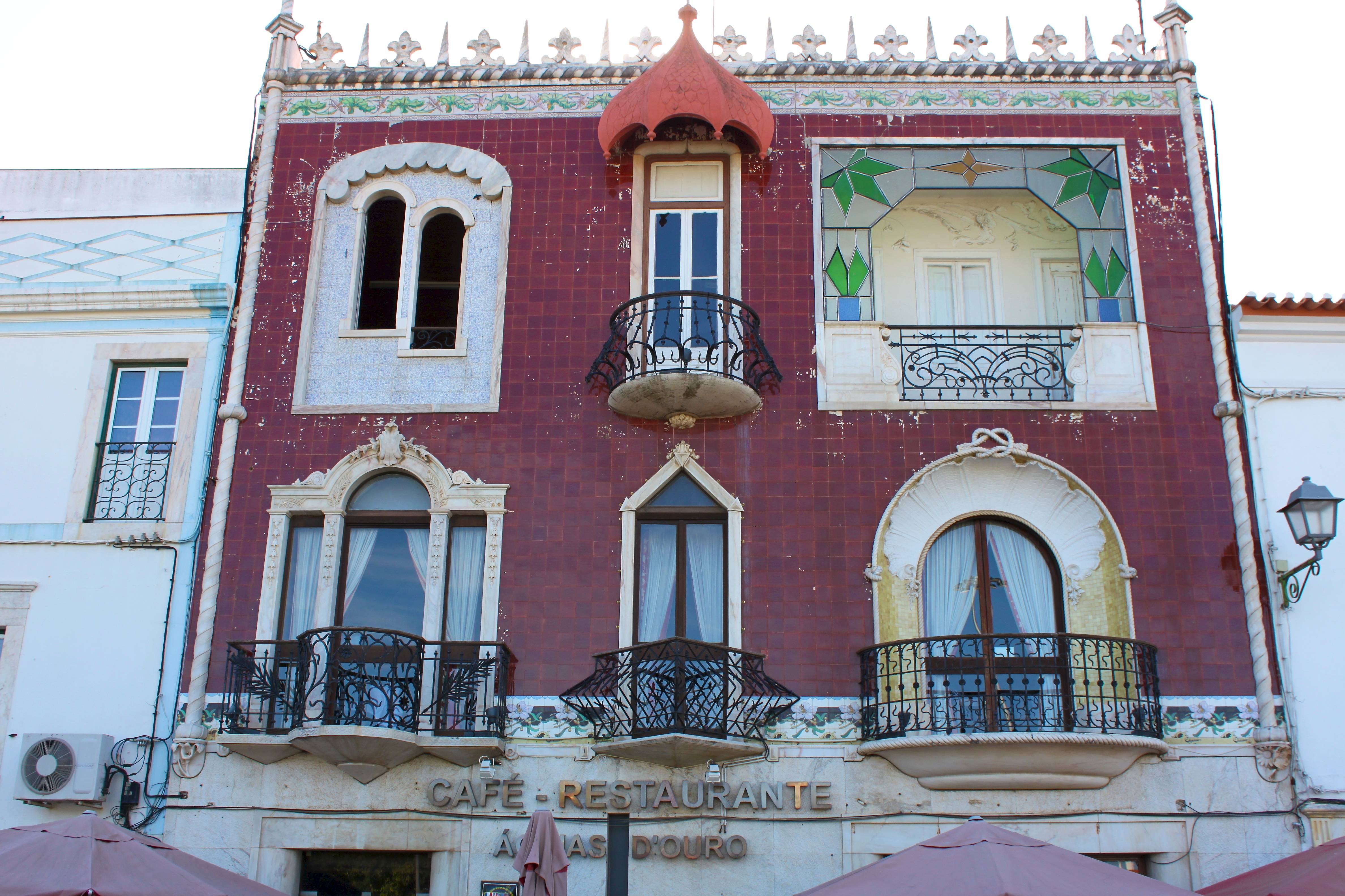 This file was uploaded for Wiki Loves Monuments in Portugal with the unique identifier 5531687.